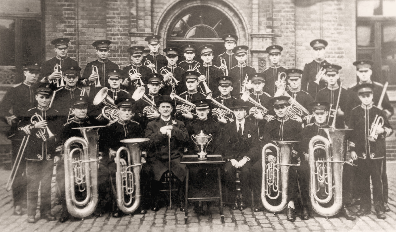 Callender's Cableworks Band: the newly formed "A" Band in 1926. The conductor seated centre front is Charles Waters (d.1968). Mr Waters was Bandmaster of the Senior Band (not shown here) from 1924. He conducted that band at many "run of the mill" concerts, and usually played 2nd or 3rd cornet when Tom Morgan, the musical director, conducted the band. Waters was the resident conductor of the "A" Band. After Tom Morgan retired, Mr Waters became the conductor of Callender's until it's demise in 1961. This information has been copied from a post on Talk:Callender's Cableworks Band dated 10 November 2013.